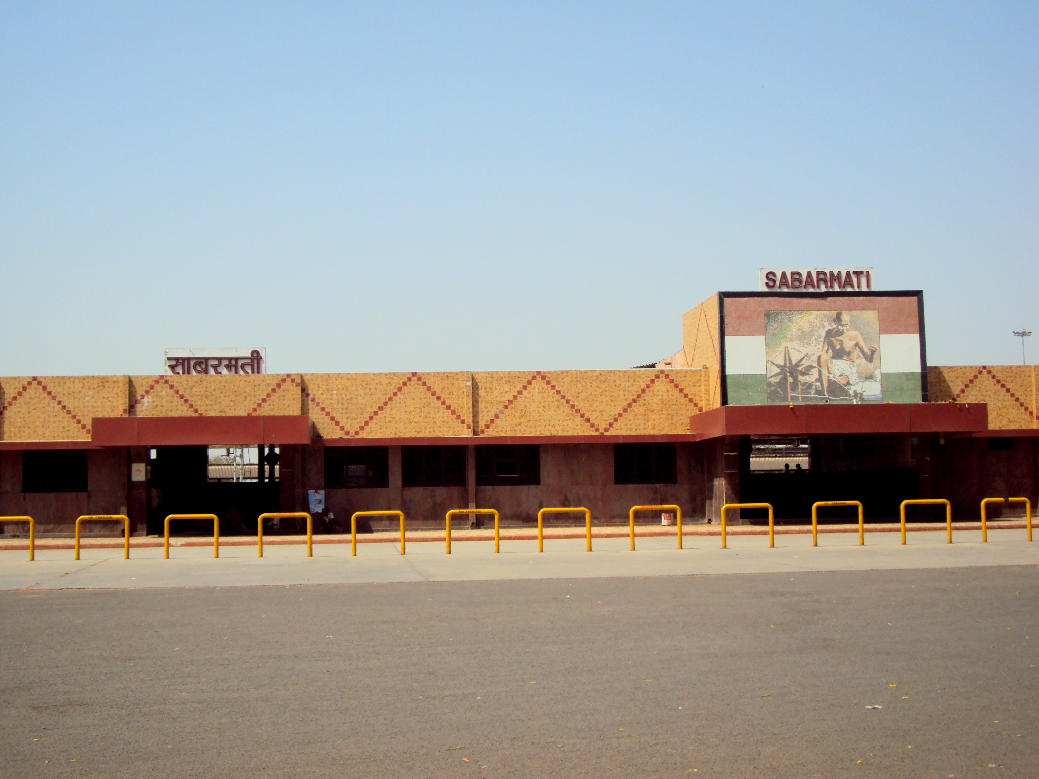 New Look Of Sabarmati Railway Station